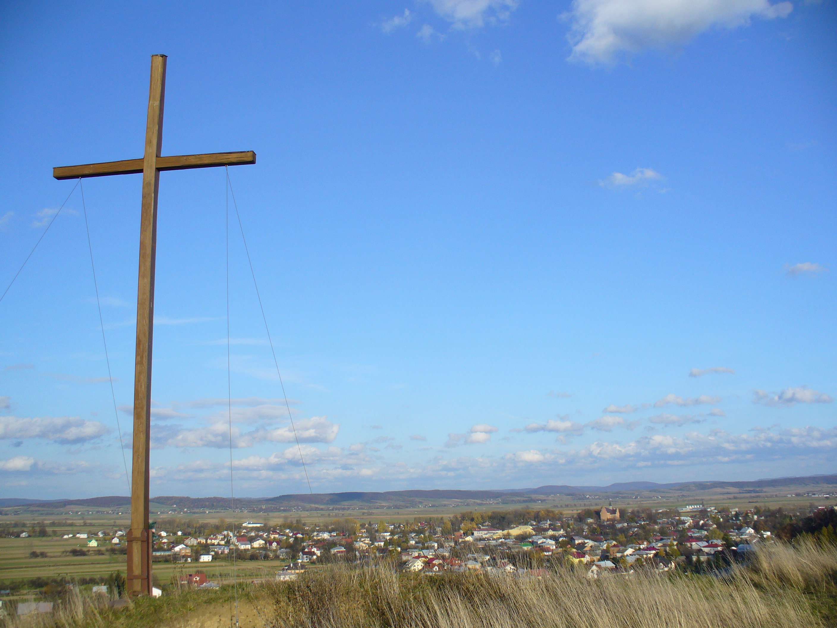 Besko